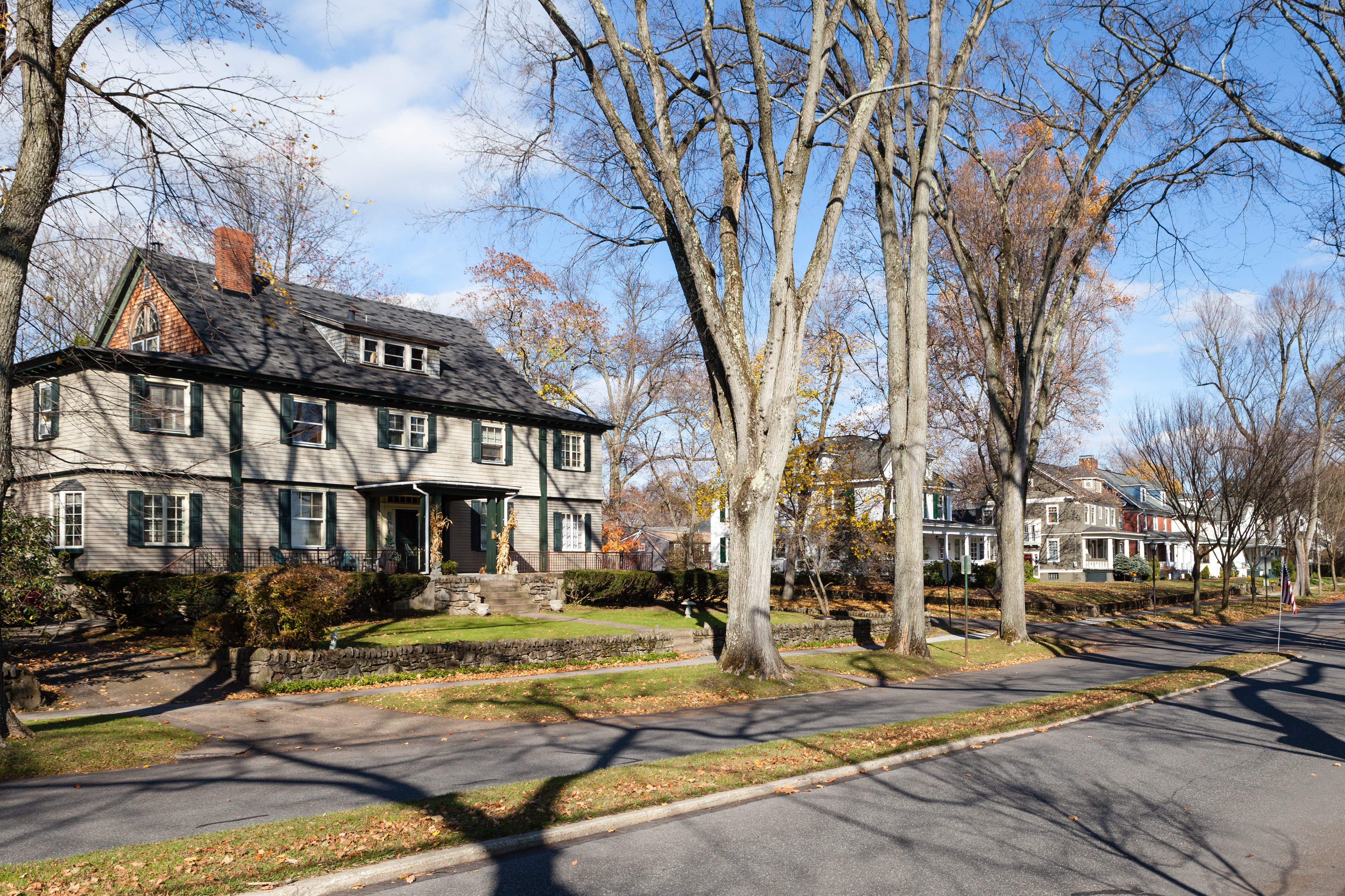 At 402 on Luzerne St, a tree lined boulevard of larger homes in the Westmont Historic District, Westmont, Pennsylvania.